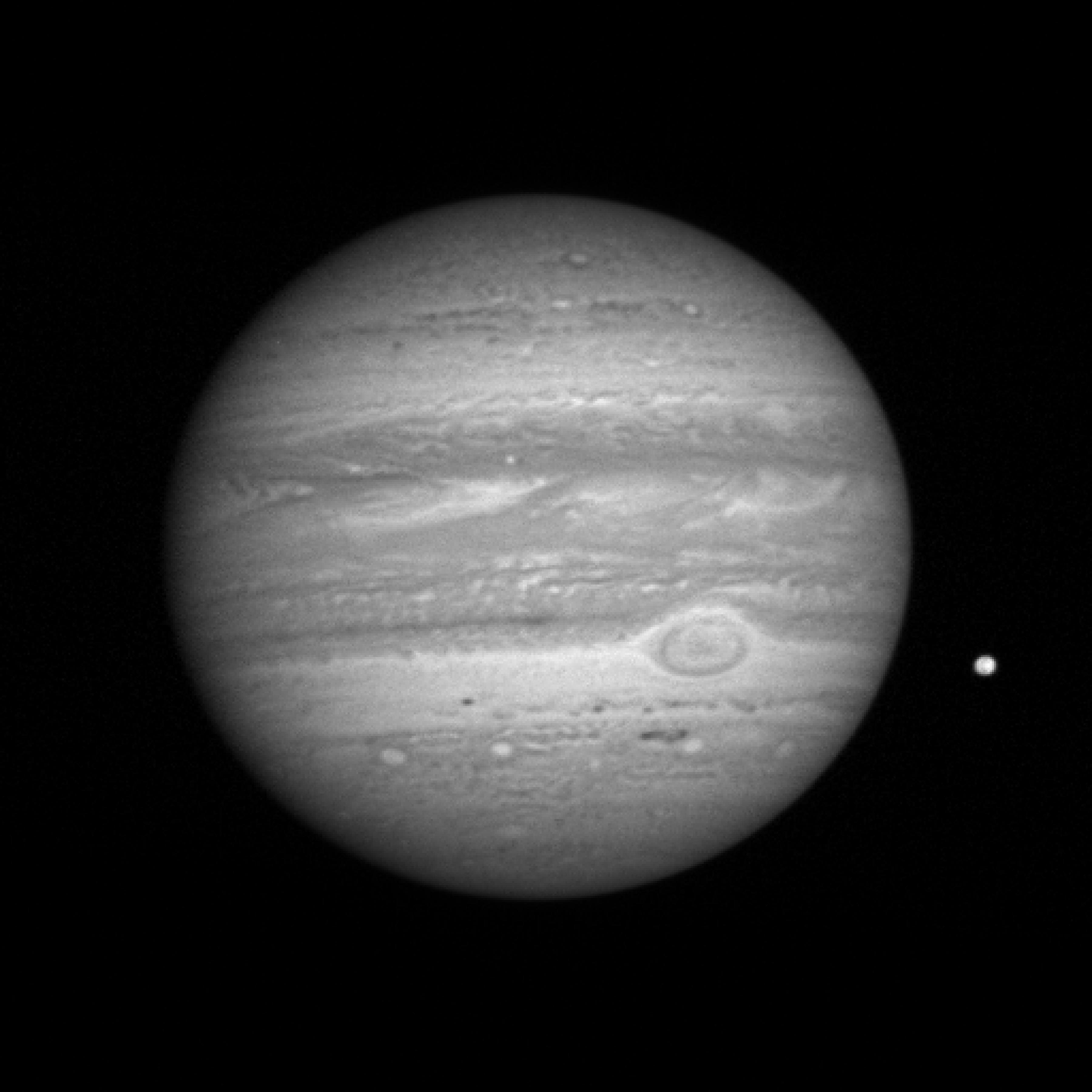 This image was taken on Jan. 8, 2007, with the New Horizons Long Range Reconnaissance Imager (LORRI), while the spacecraft was about 81 million kilometers (about 50 million miles) from Jupiter. Jupiter's volcanic moon Io is to the right; the planet's Great Red Spot is also visible. The image was one of 11 taken during the Jan. 8 approach sequence, which signaled the opening of the New Horizons Jupiter encounter.